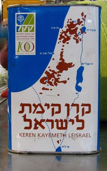 JNF collection box (pushke)